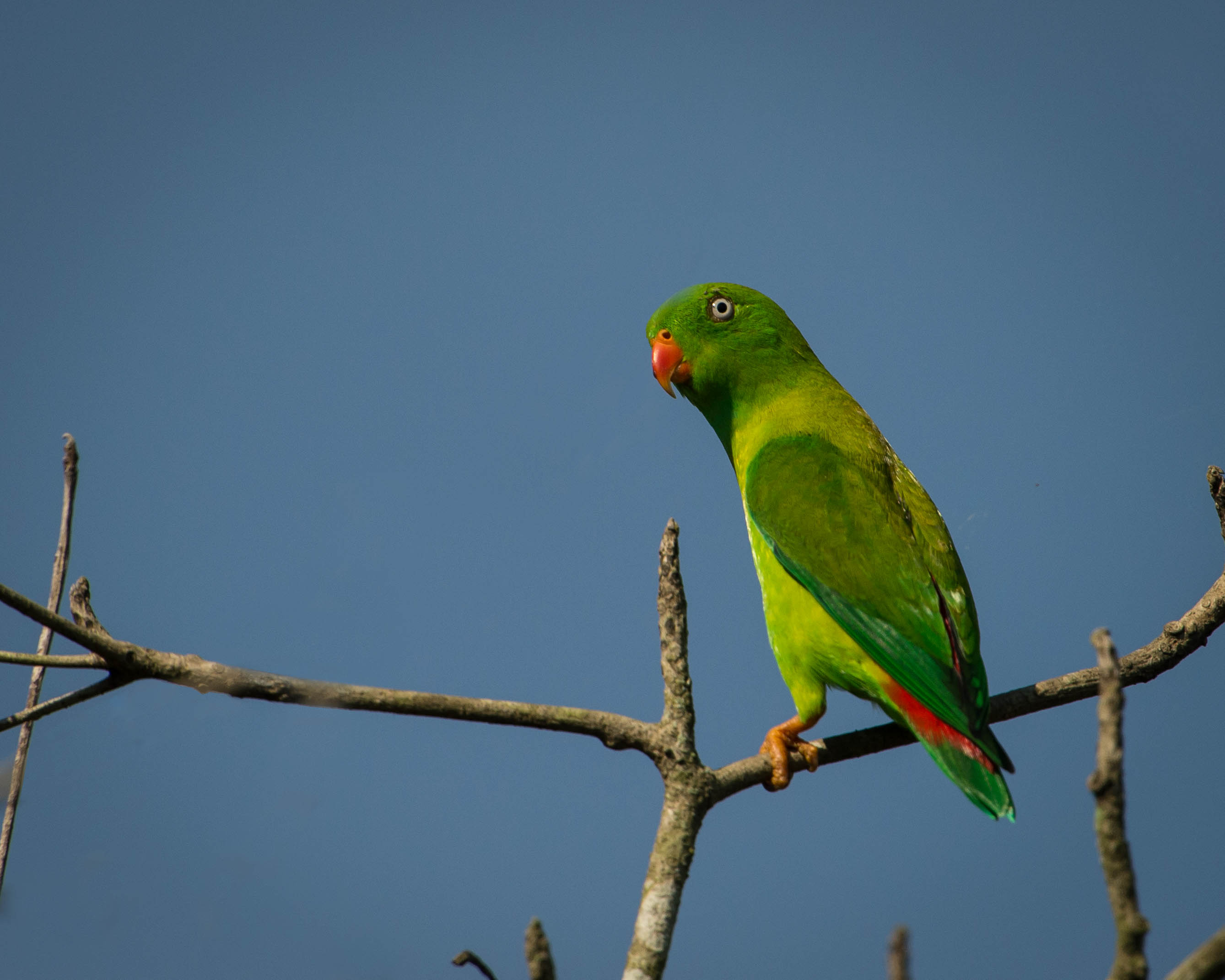 Vernal Hanging-Parrot (Loriculus vernalis) at fruit garden, Kaeng Krachan area, Phetchaburi, Thailand